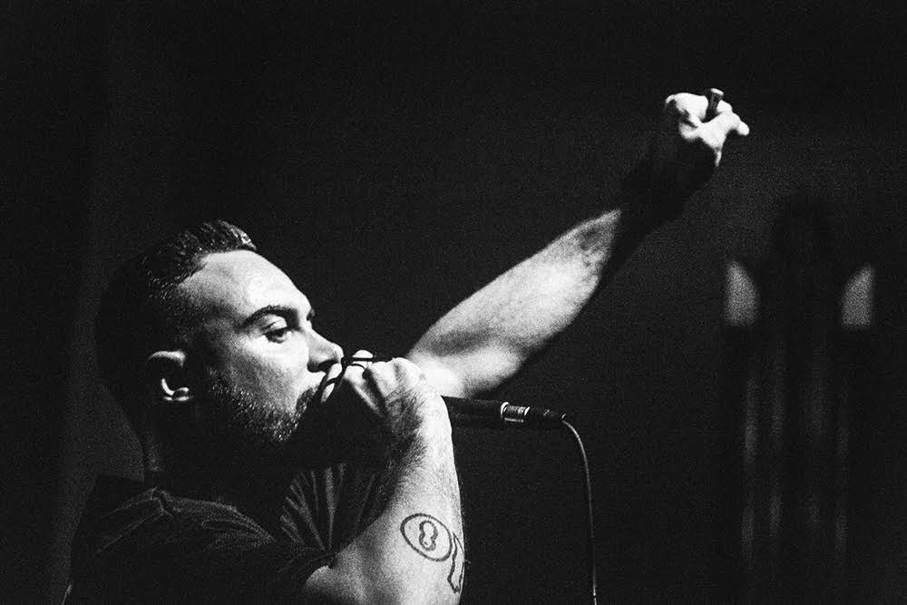 Koncept performing